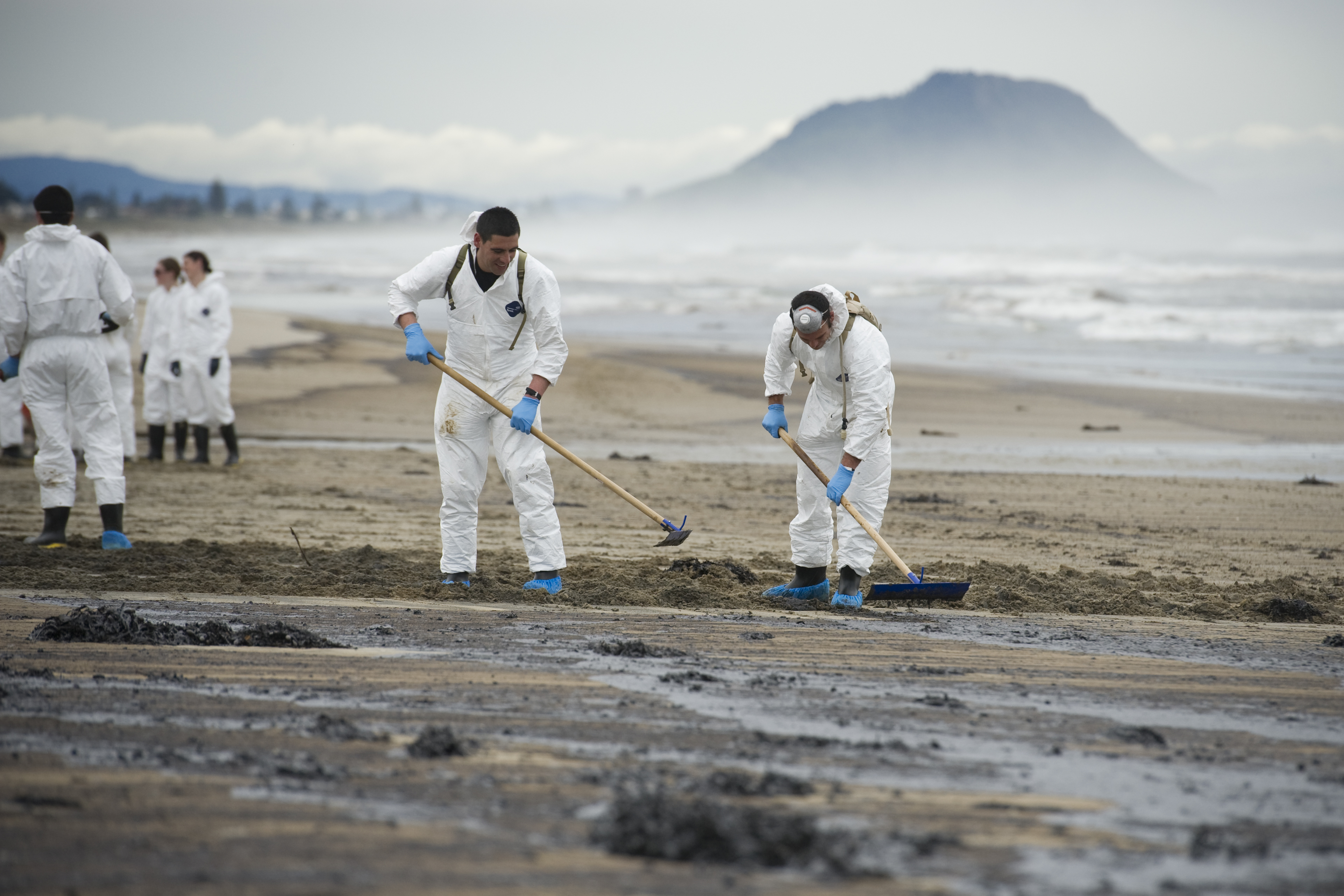 Army soldiers cleaning Papamoa Beach after oil from the grounded ship Rena reached shore.